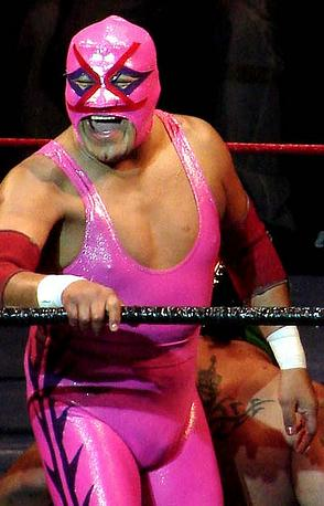 A picture of either Villano IV or Villano V with mask